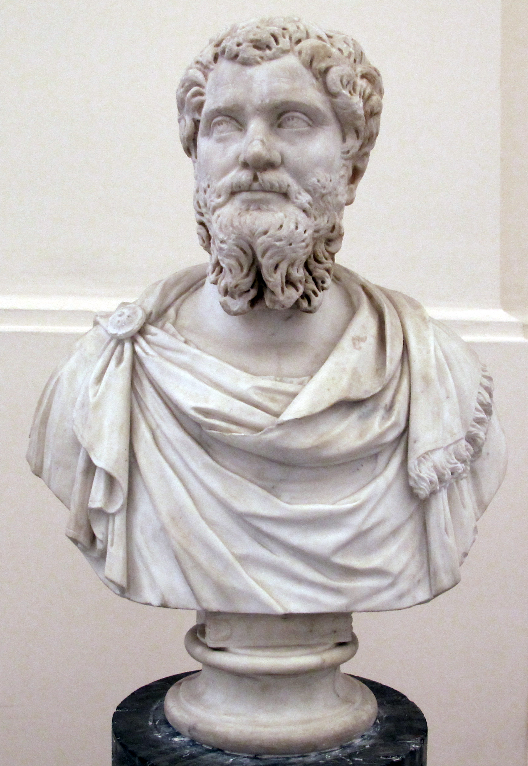 Ancient Roman busts in the Museo Archeologico (Naples)